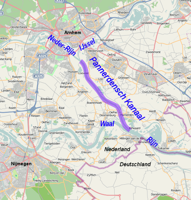 Pannerdensch Kanaal, Netherlands location map